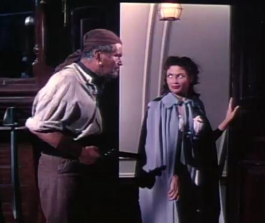 Jay C. Flippen & Yvonne De Carlo in Buccaneer's Girl - trailer (cropped screenshot)